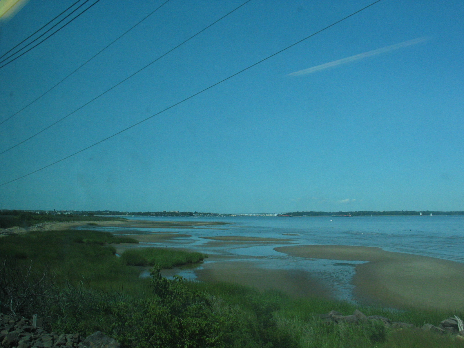 The coast of the RAritan Bay near SOuth Amboy, NJ